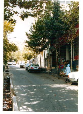 Mehr street in Za'feraniyeh quarter of Tehran. Picture taken by Mani Parsa in 2004. Persian: خیابان مهر در محله زعفرانیه تهران. عکس گرفته‌شده از سوی بن‌بست منصور.